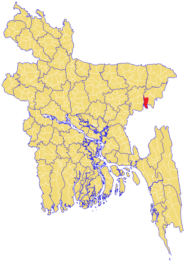 Map of Sreemangal Upazila in Maulvibazar District, Sylhet Division, Bangladesh